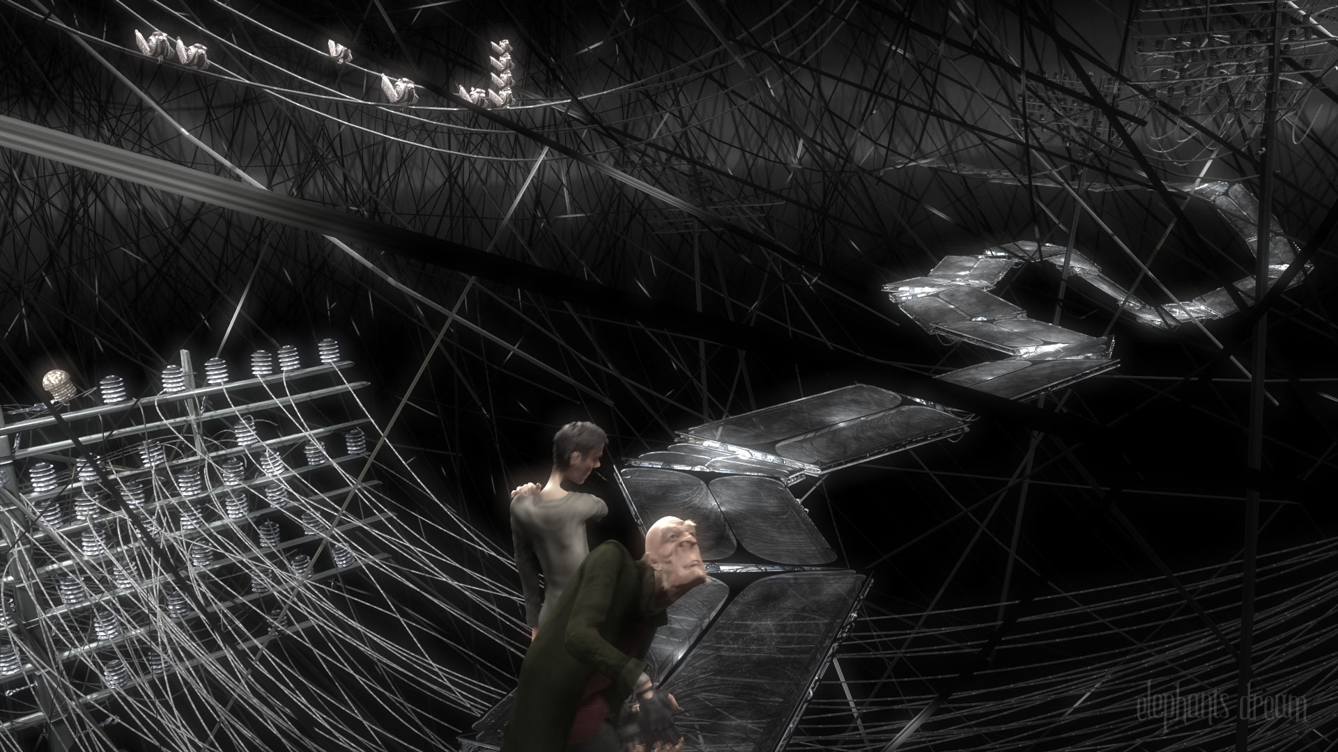 Image from the film Elephants Dream.